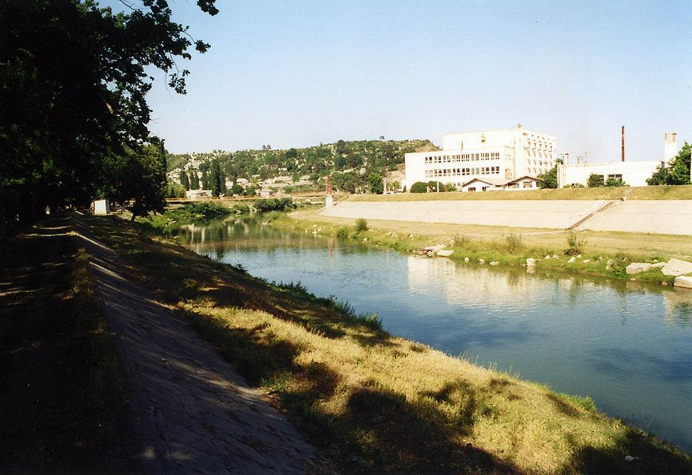 The Arieş River in Turda Transferred from Ro:Wikipedia. The author have accepted public use of the picture worldwide